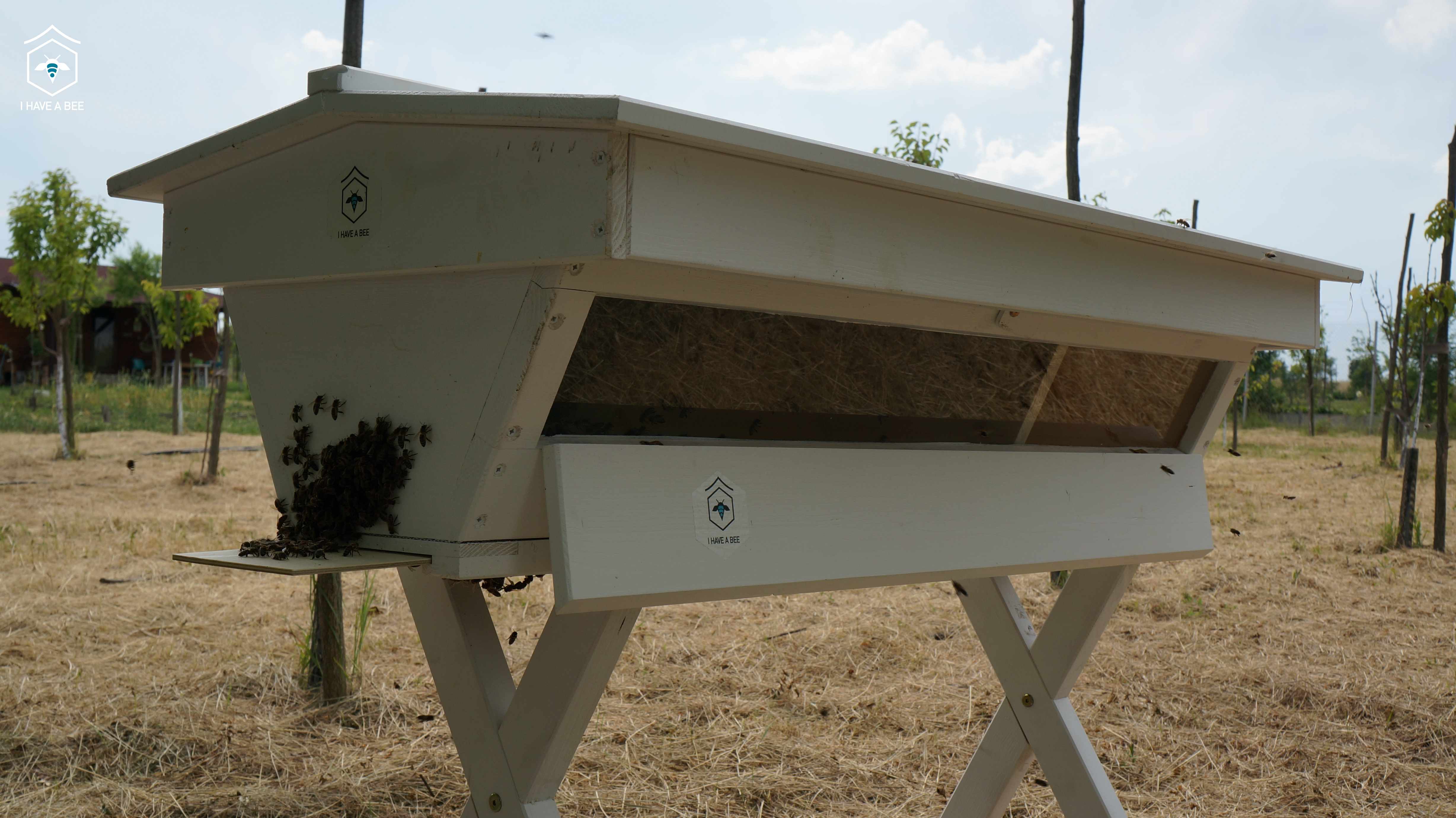 top bar hive